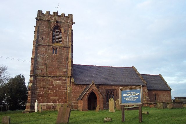 Photograph